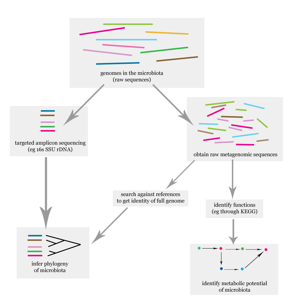 Targeted vs. Shot gun Sequencing in metagenomics